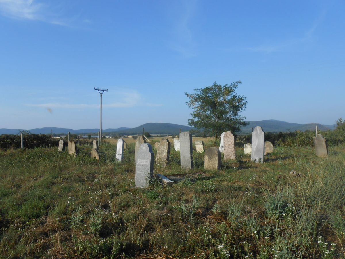 Jewish cemetery near the village